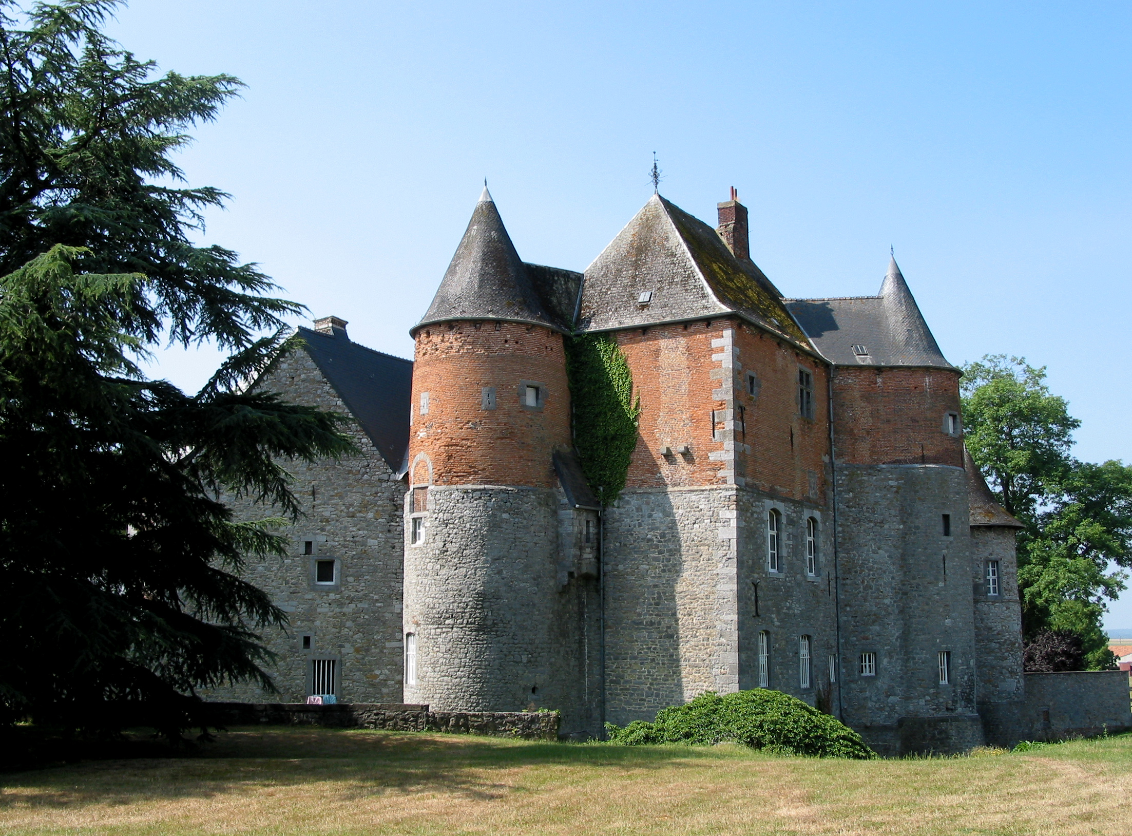 Leers-et-Fosteau (Belgium), the castle (XIV-XIXth centuries).